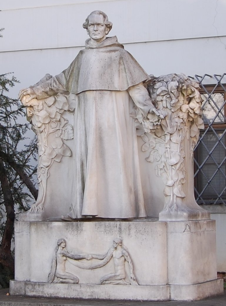 Sculpture of Gregor mendel in Brno, in the garden where he worked